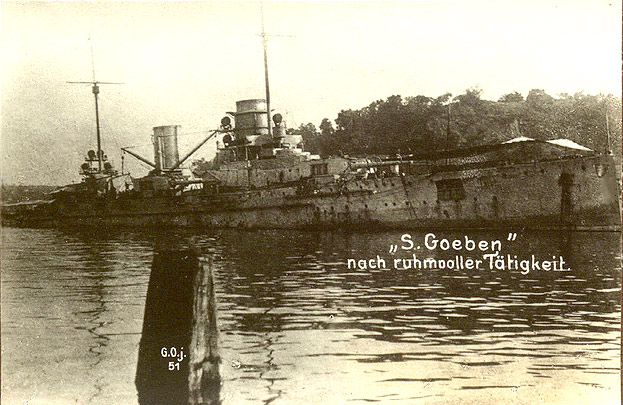 Goeben beached in the Dardenelles after the Battle of Imbros